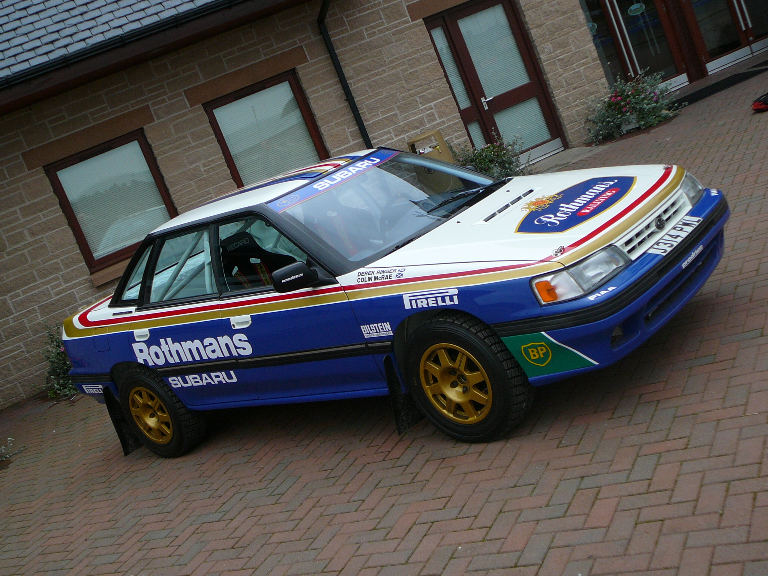 Colin McRae's Subaru Legacy Rally car